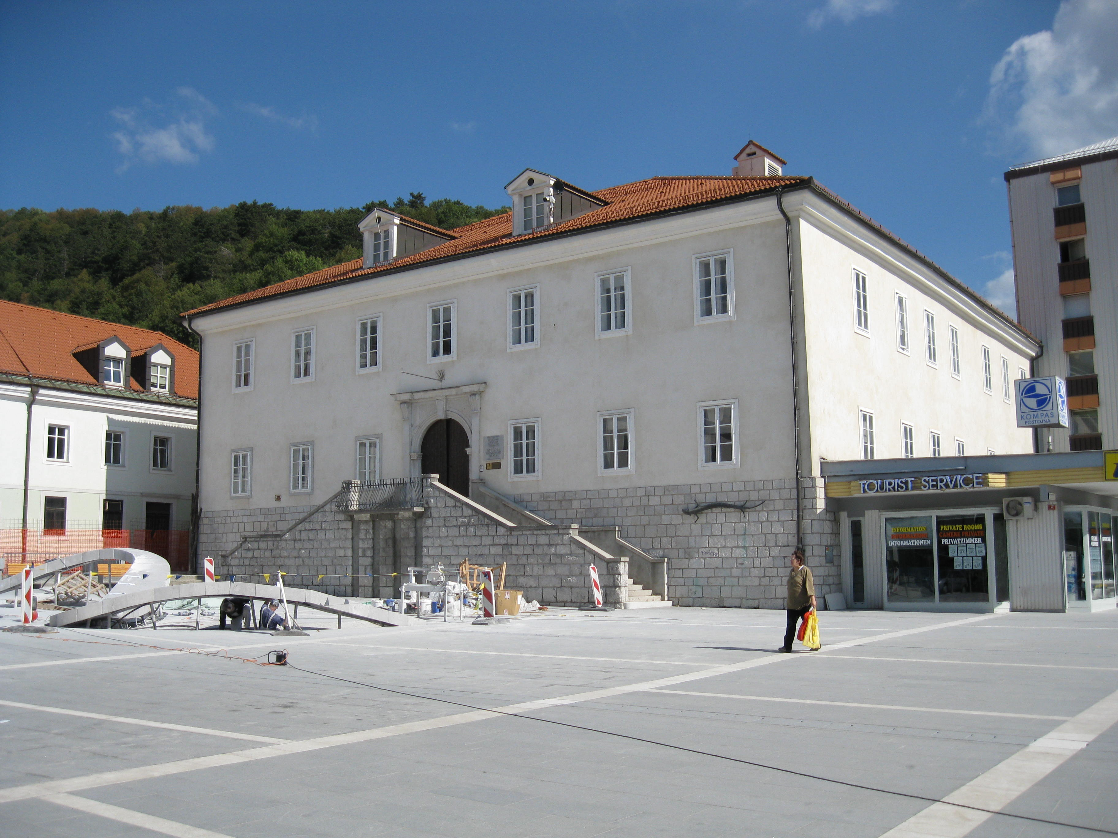 The building of the Karst Research Institute of the Slovene Academy of Sciences and Arts at Tito Square in Postojna. The building dates to the 17th century. The sculpture of the olm (Proteus anguinus) on its front facade was made by Frančišek Smerdu (1908-1964).